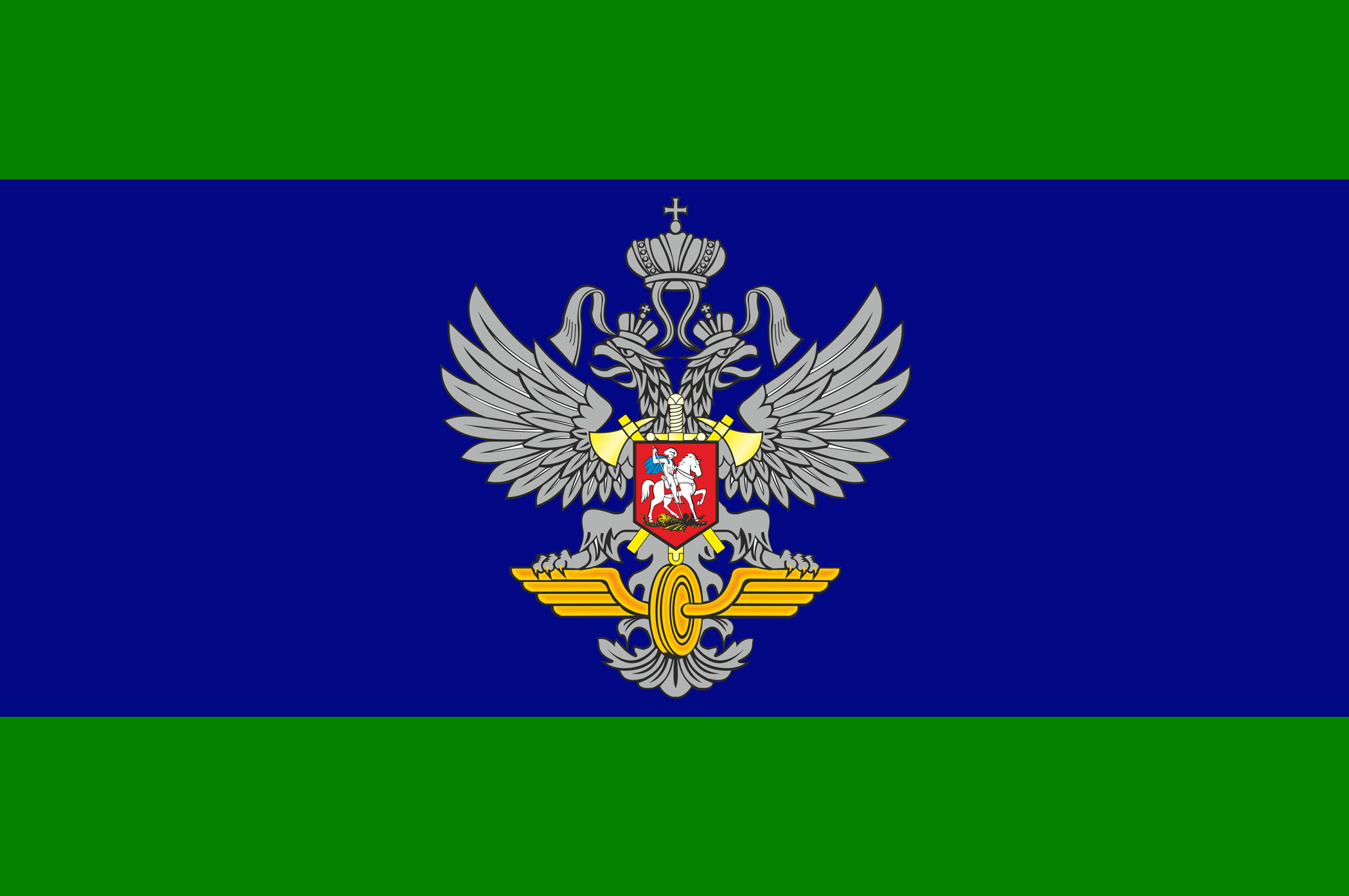 Flag of Federal Departmental Security of a railway transportation